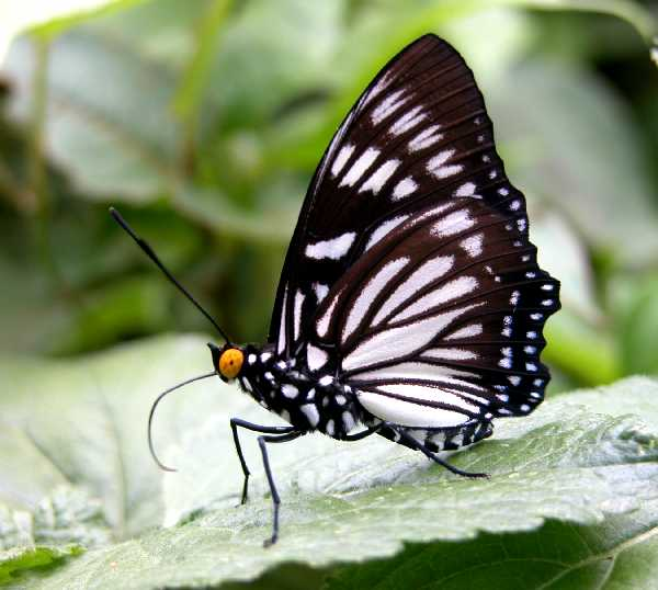 Painted Courtesan Euripus consimilis taken at Jairampur, Arunachal Pardesh, India.